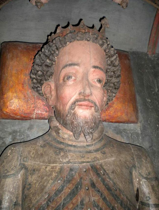 Portrait detail of the contemporary grave monument of King Albert of Sweden in Doberan Minster, as released by image creator Ristesson; Place: Bad Doberan, Germany